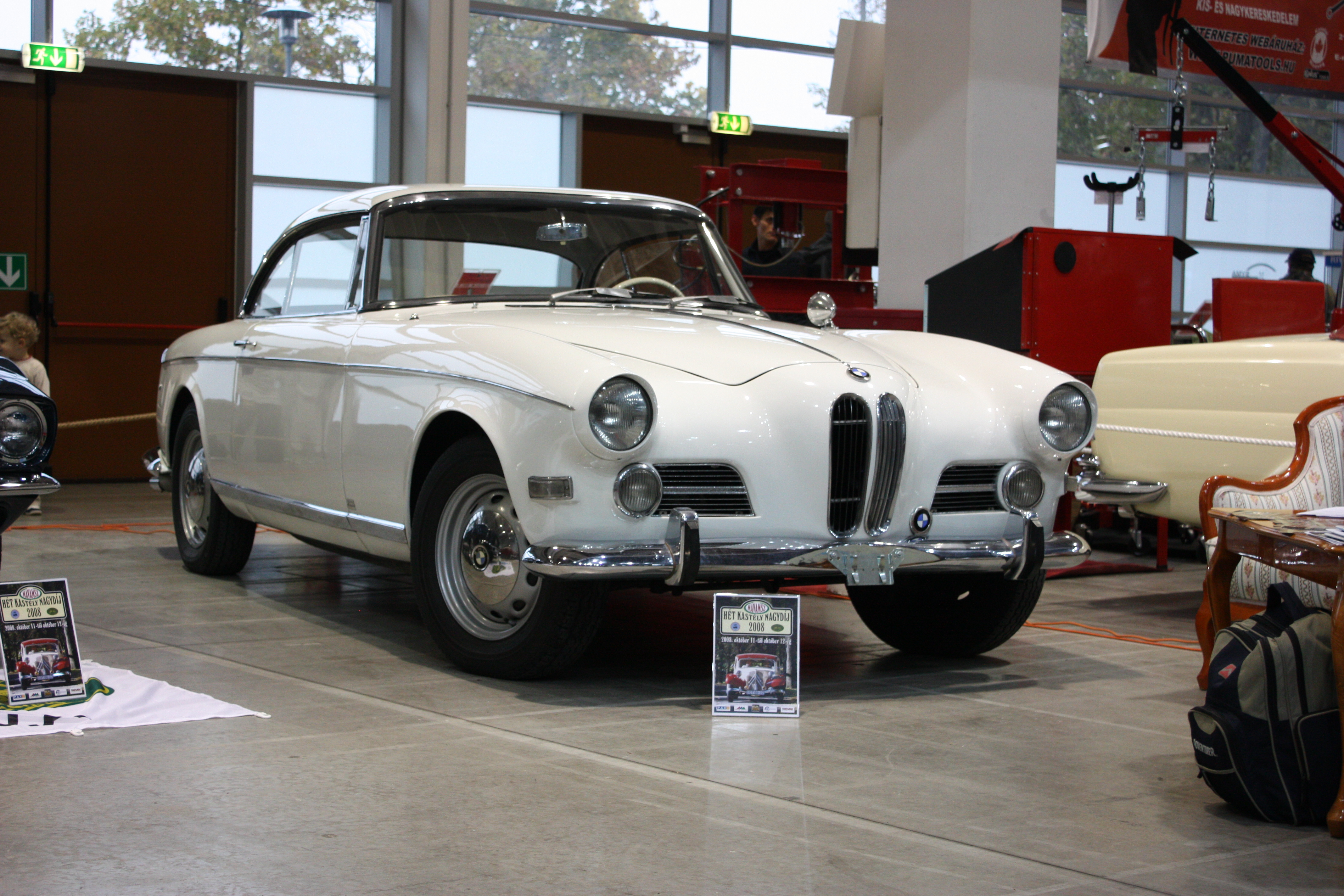 Oldtimer Show 2008.